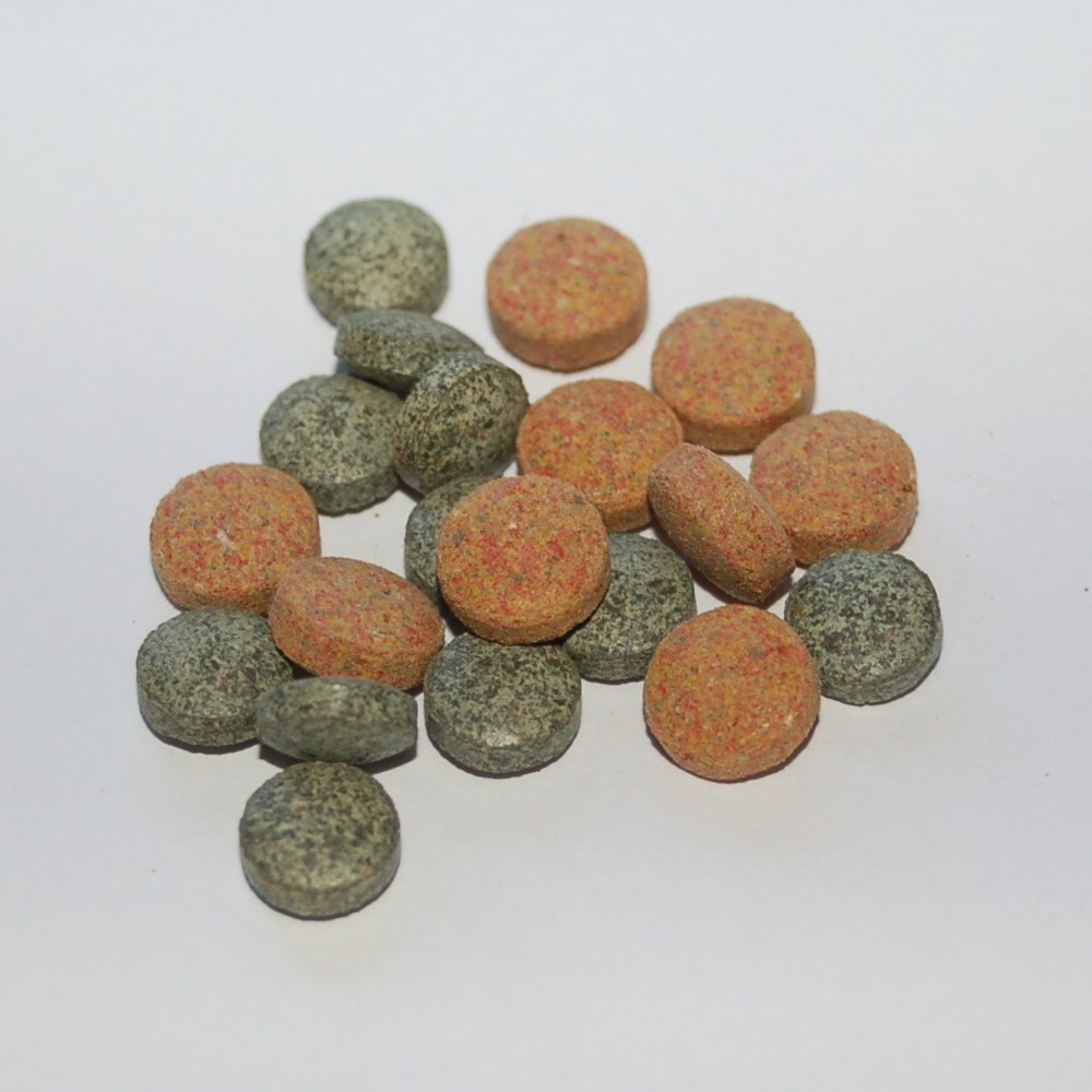 Fish feed tablets for ground feeding ornamental fish like für bodenfressende Zierfische wie catfish and loach